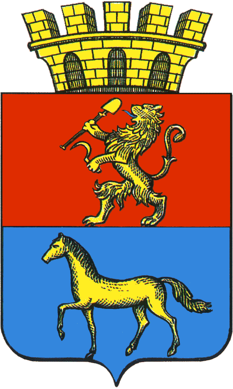 Coat of arms of Minusinsk